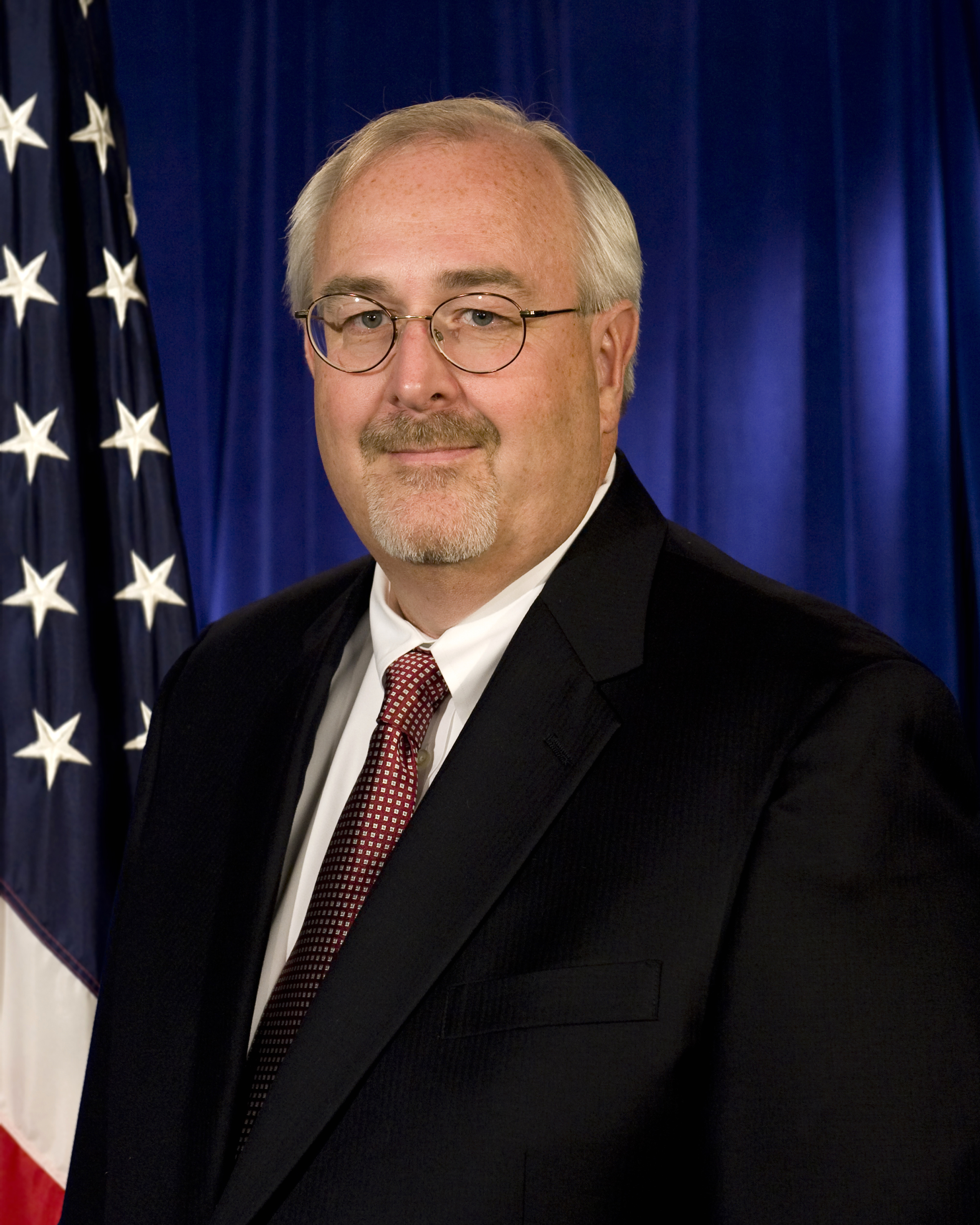 Official portrait of Administrator of the Federal Emergency Management Agency W. Craig Fugate.